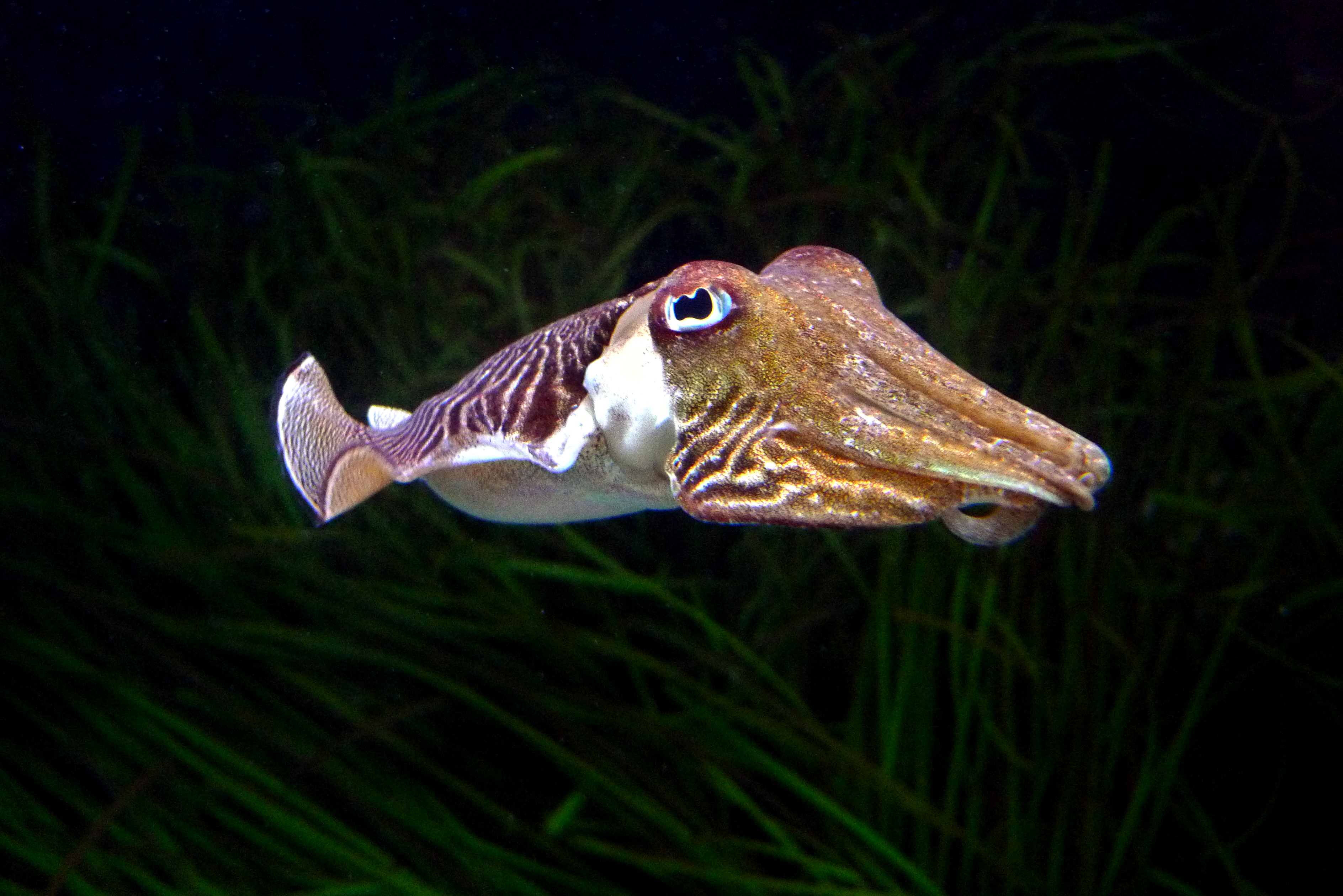 Cuttlefish